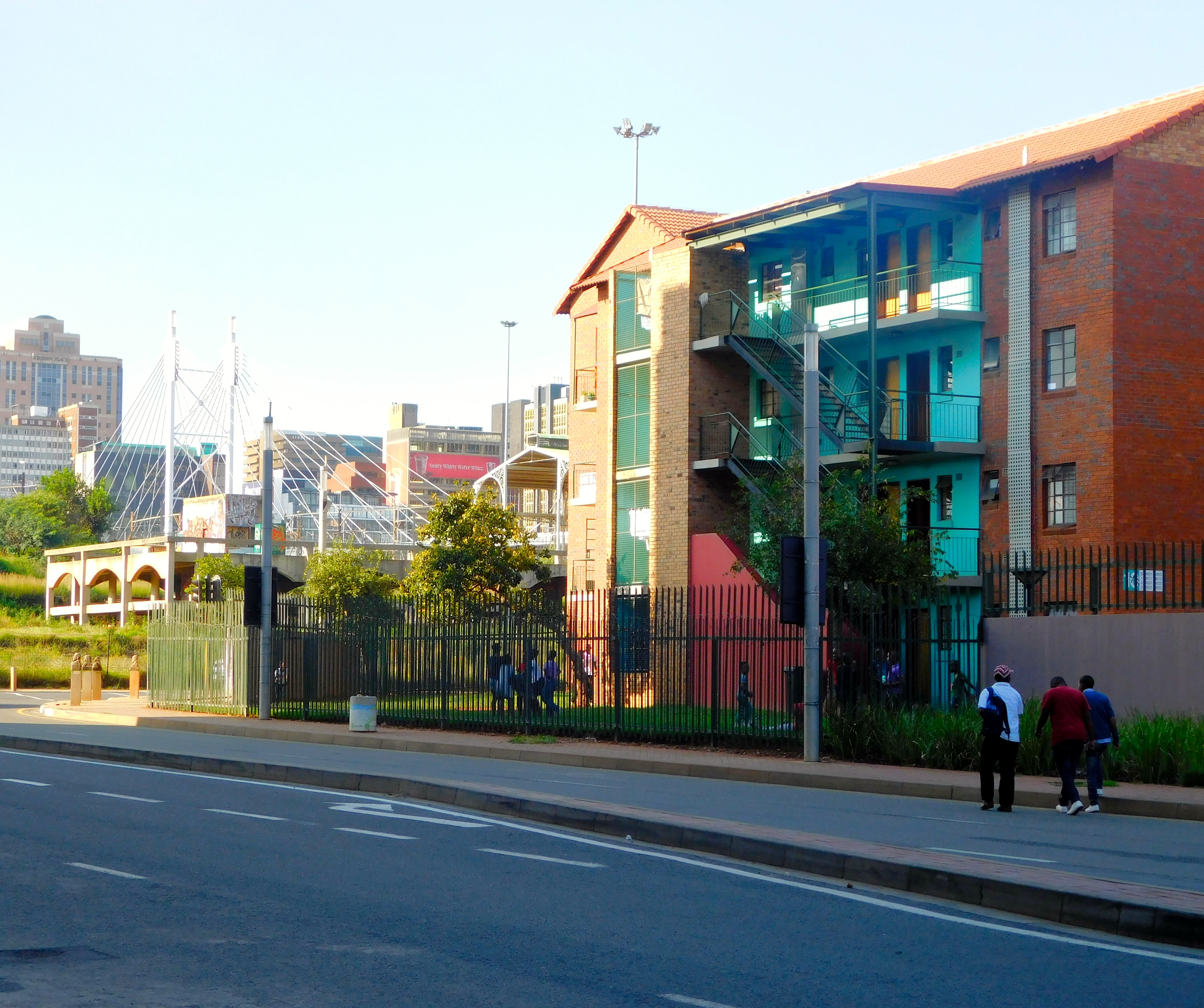 Newton, Johannesburg, Gauteng, South Africa.